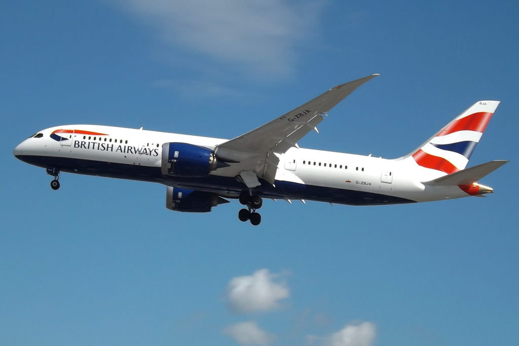 G-ZBJA Boeing 787 British Airways